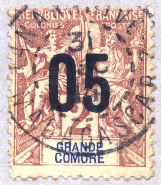 2 centimes stamp of the island of Grand Comoro, overprinted for use in Madagascar in 1912 (Yv #20). Cancelled on Dec. 31, 1914 in Antananarivo.